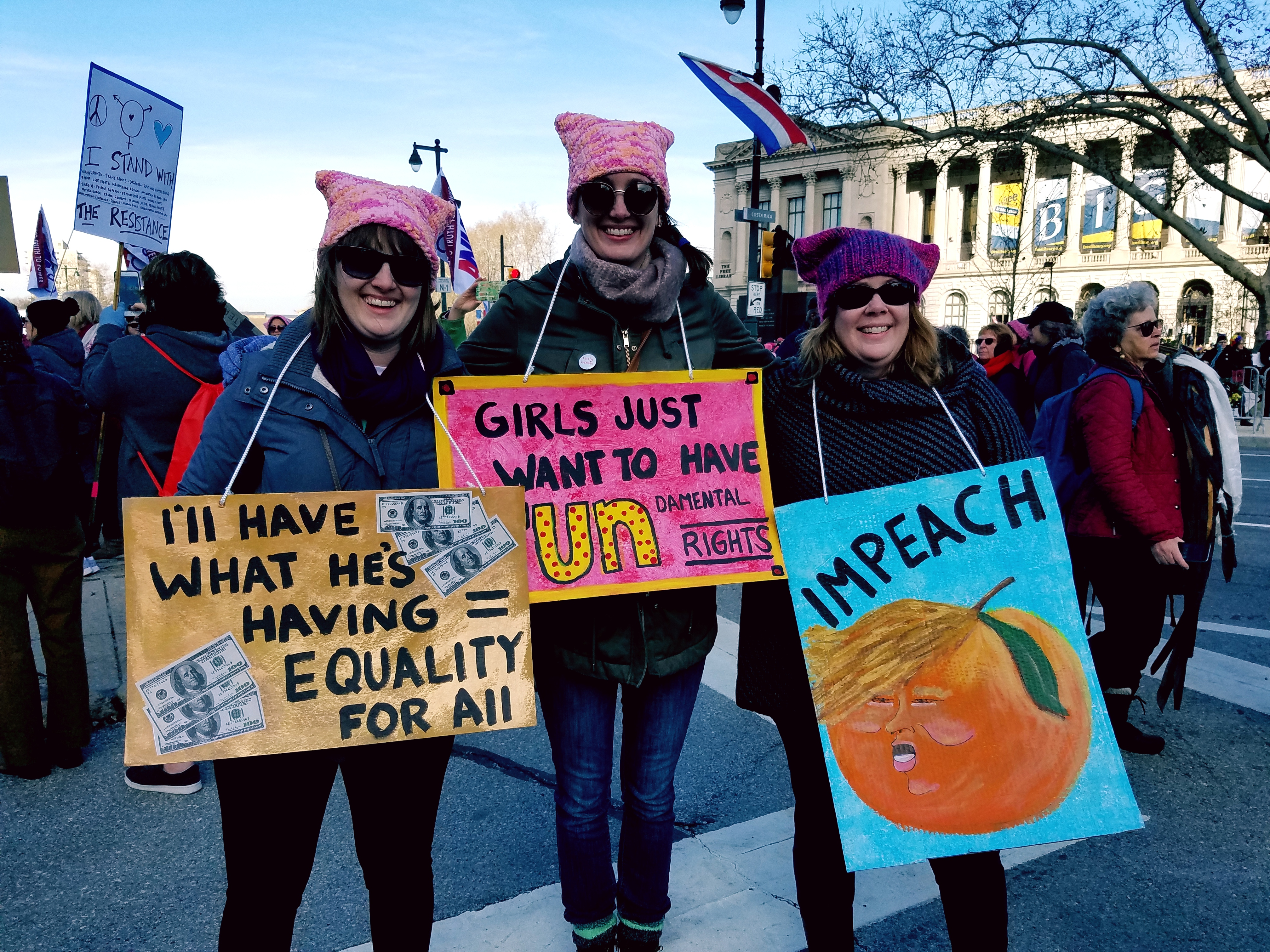 womensmarch2018 Philly Philadelphia #MeToo